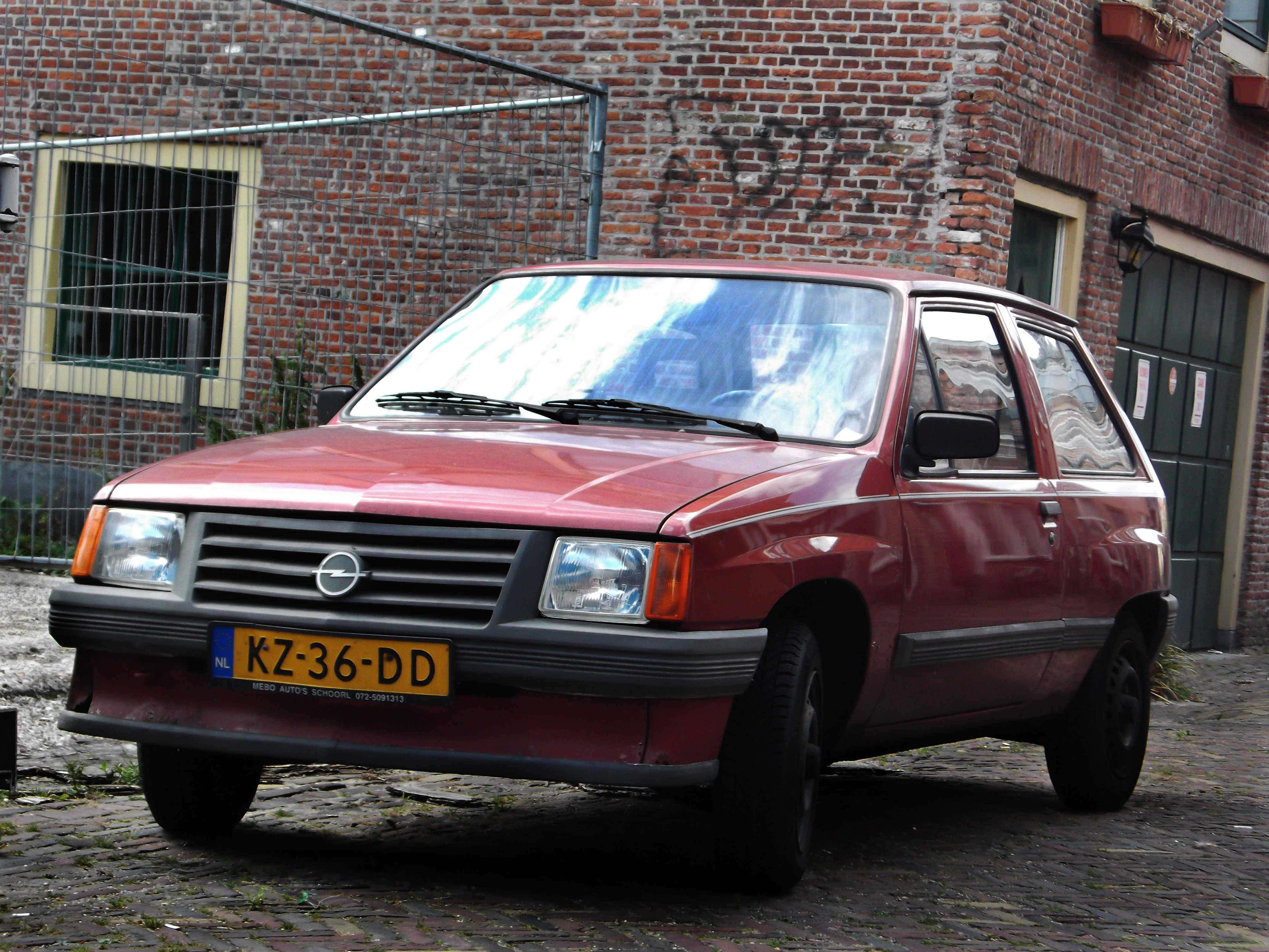 Corsa A (1984)